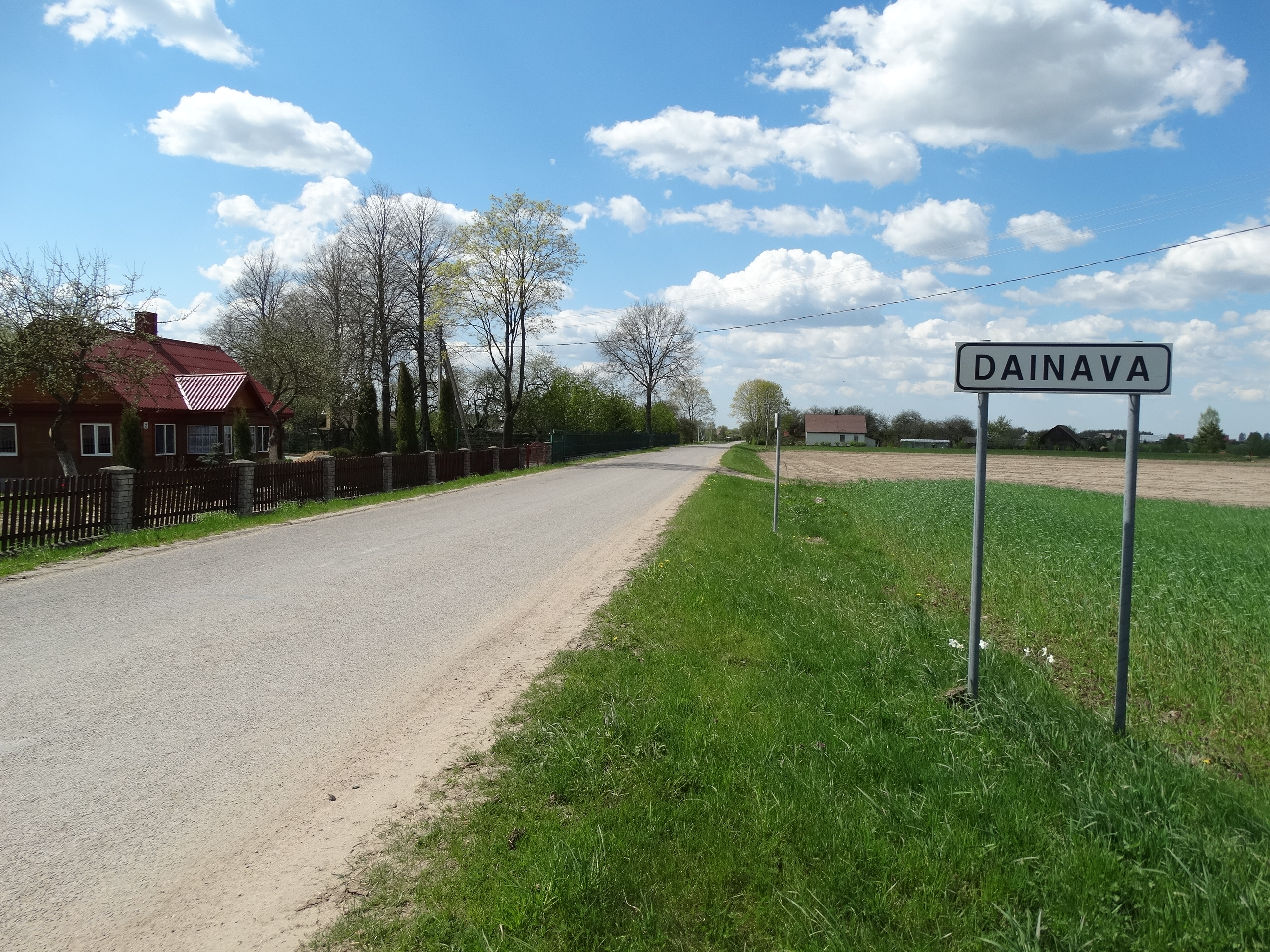 Dainava, Šalčininkai District, Lithuania